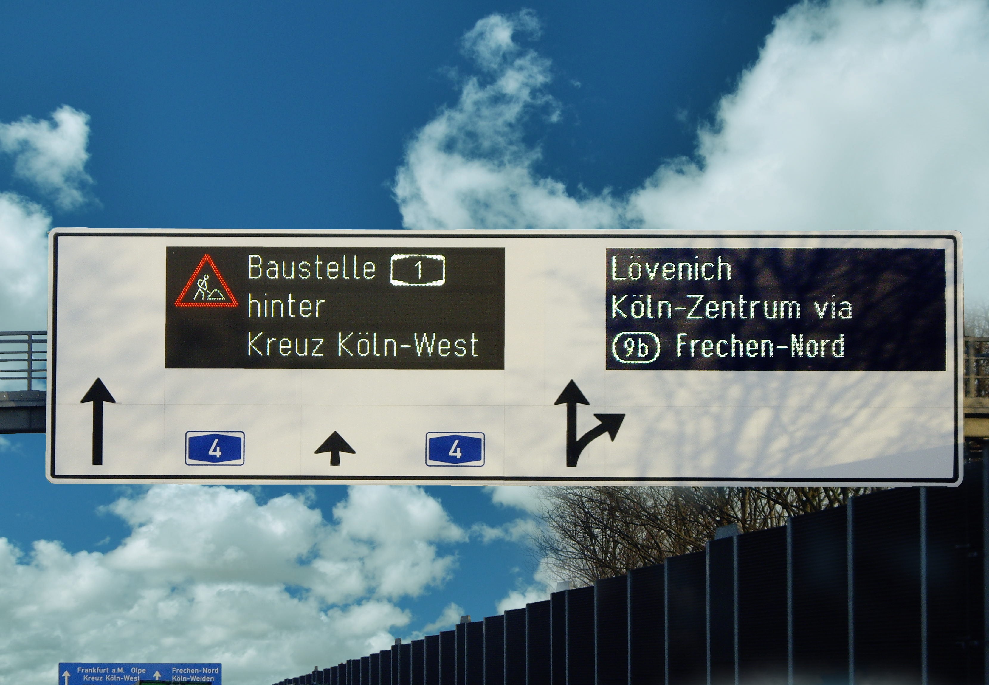 Wechselverkehrszeichen auf der A4